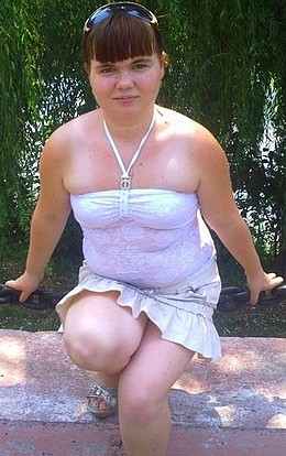 Girl with Robinow syndrome